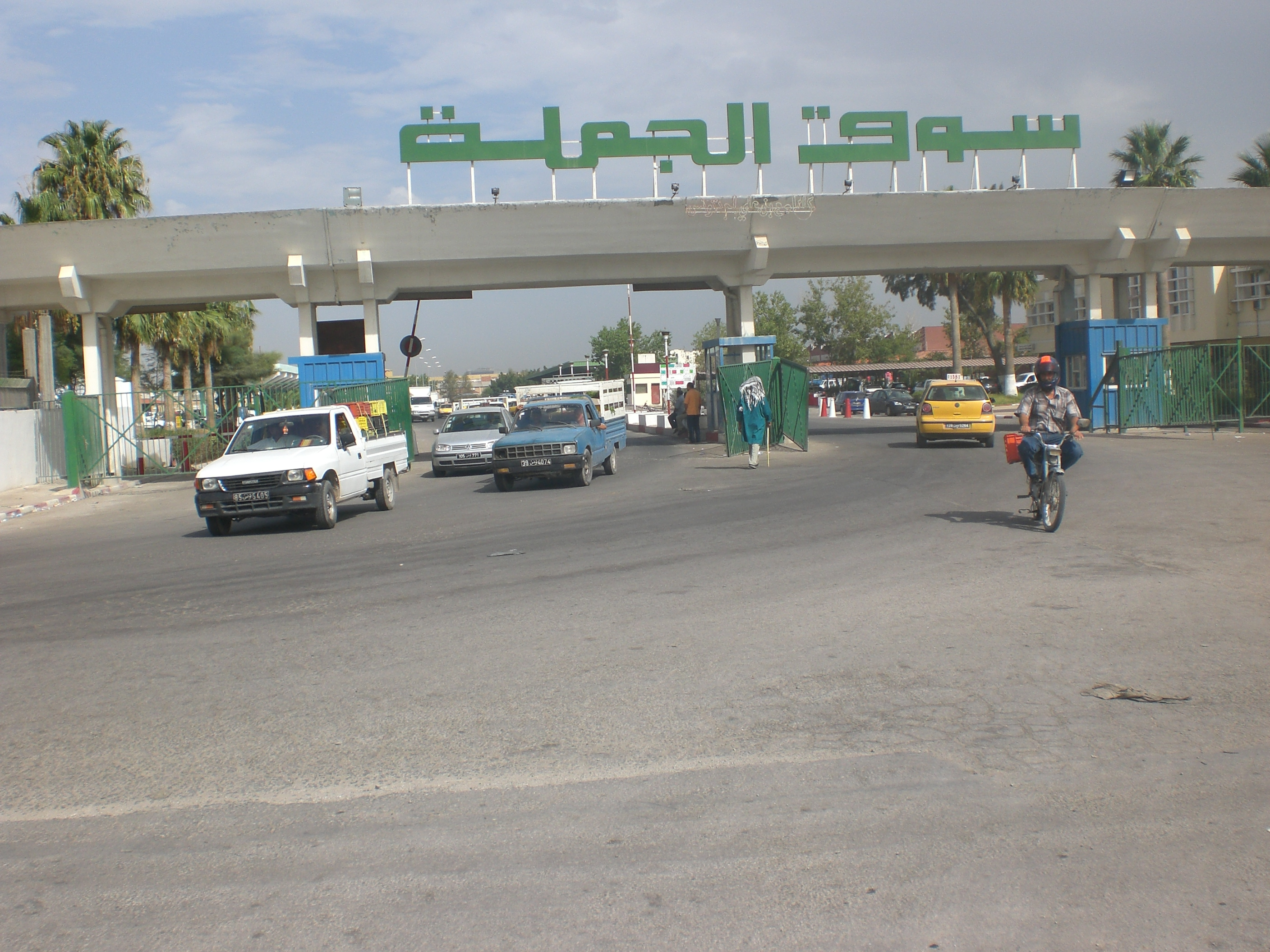 The Marché de Gros de Tunis